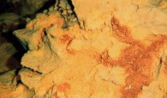 Yellow iron oxide covered lava rock on the flank of Loihi submarine volcano.